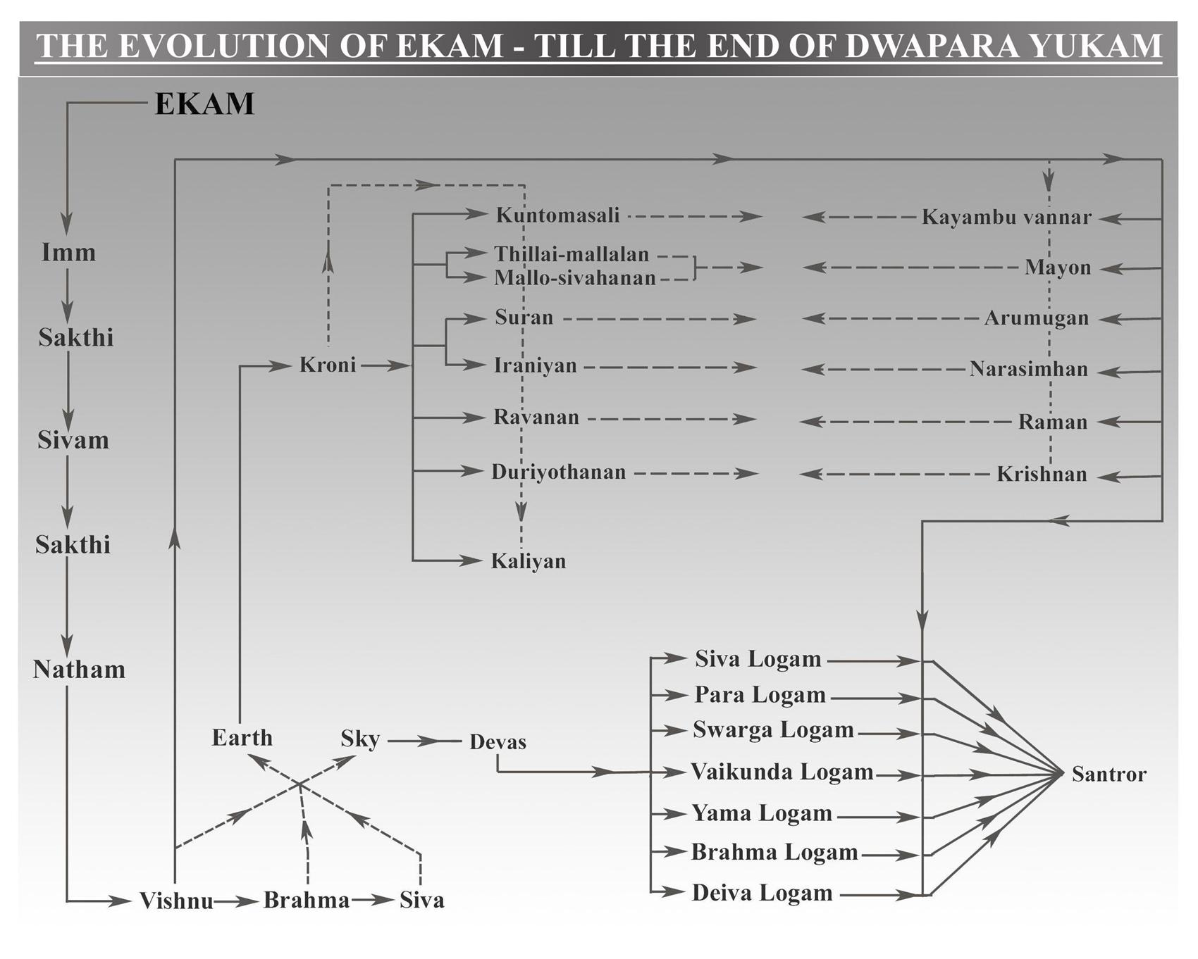 I created this image.